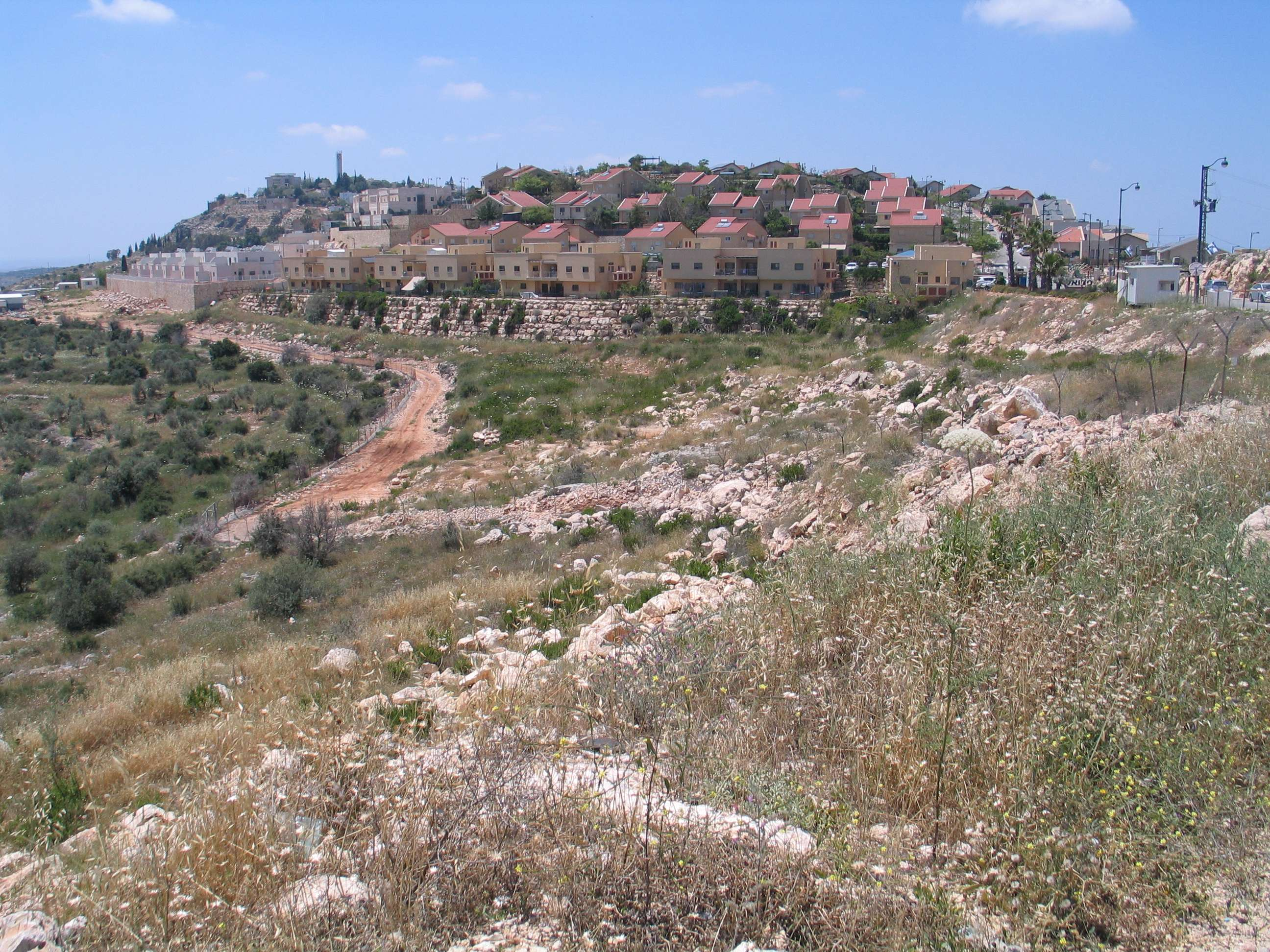 Pduel (Peduel) settlement in Samaria.